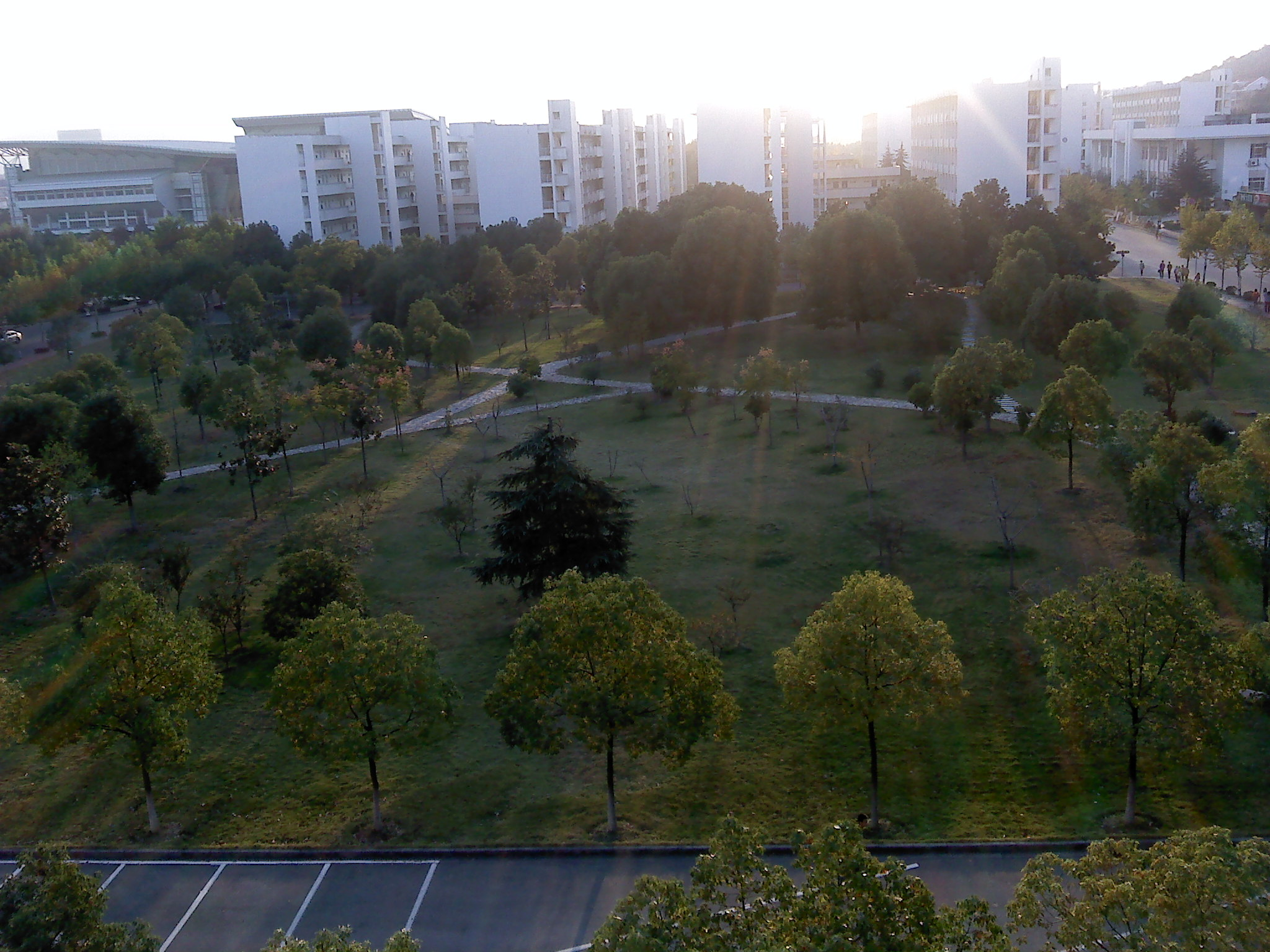 Nanjing Normal University West part